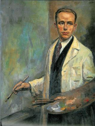 Self portrait painting of Luc De Decker (1938). In the possession of the De Decker family.